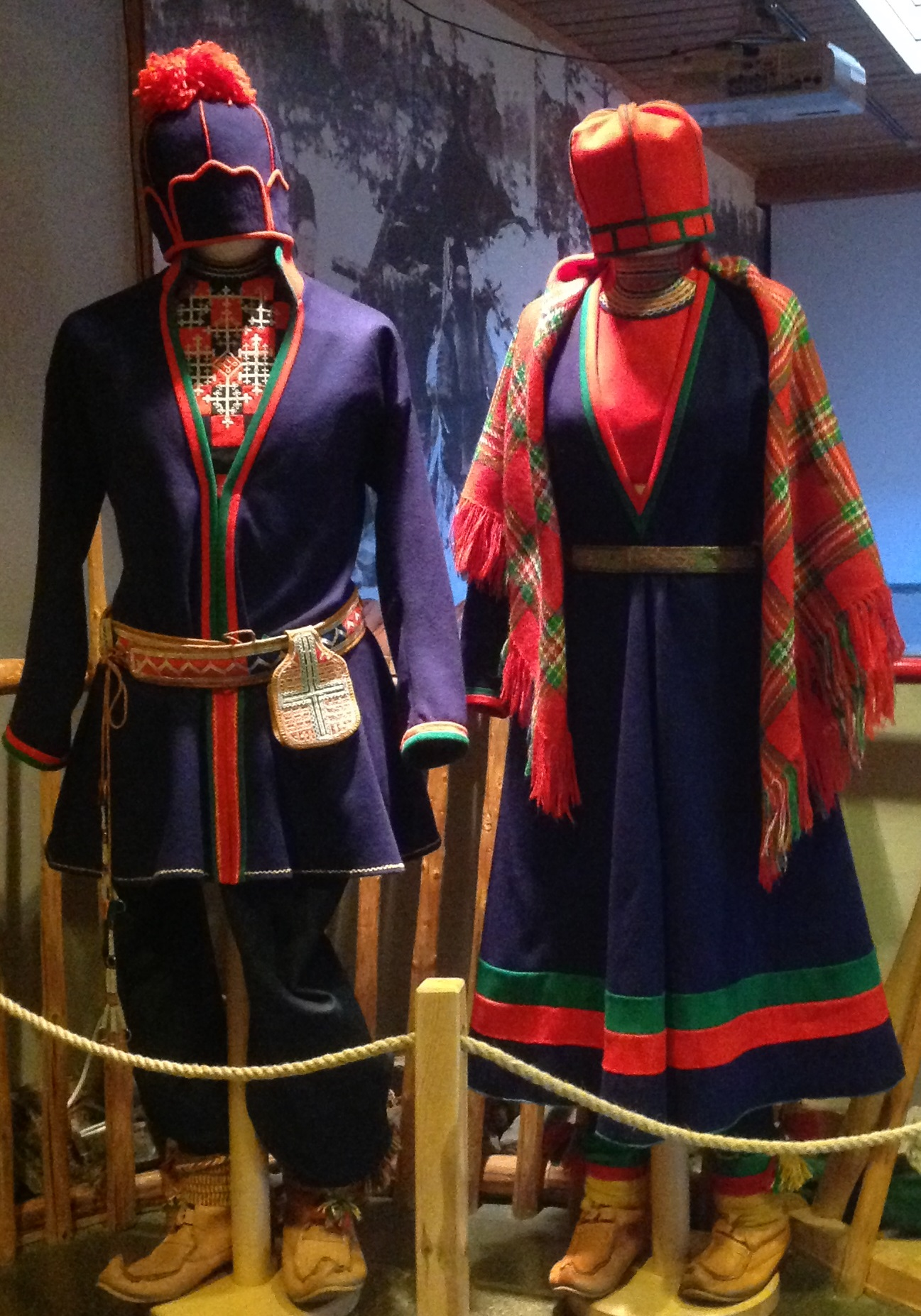 The gapta of the southern sami people, as exhibited at the southern sami museum Saemien sitje, Snåsa.